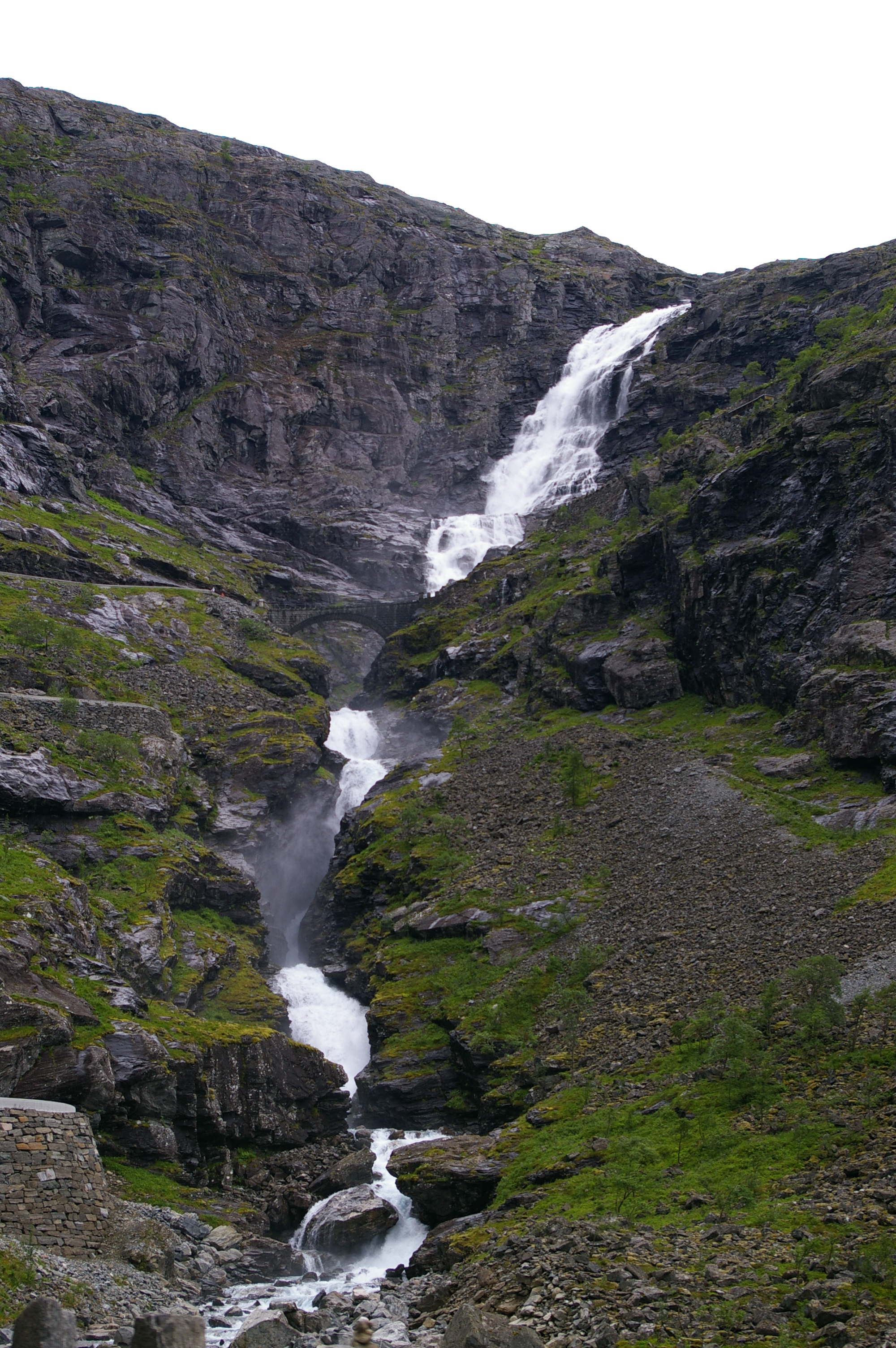 Stigfossen at Trollstigen in Rauma, Møre og Romsdal, Norway.